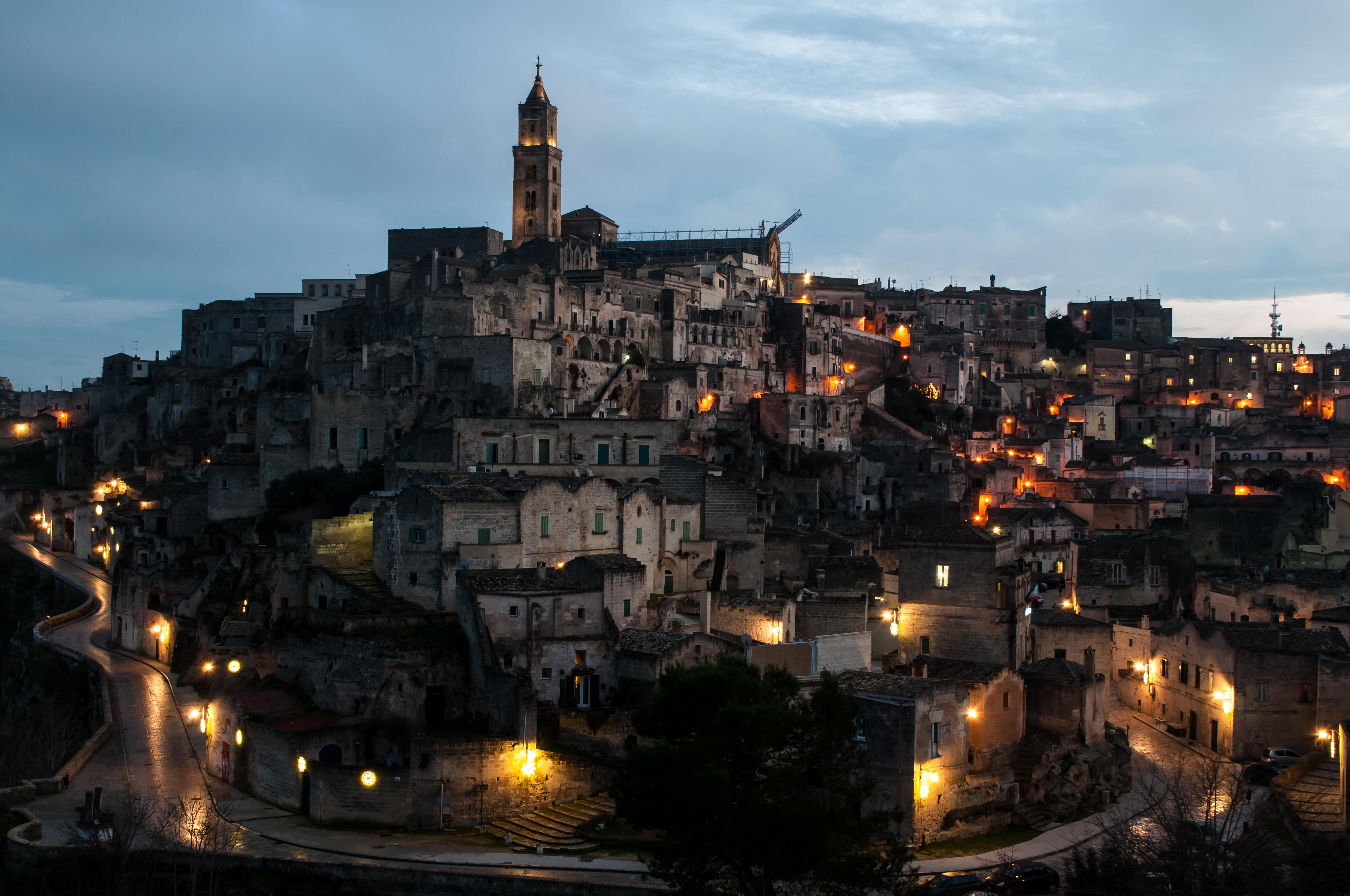 The crib - Cathedral - Matera (MT) - Basilicata This is a photo of a monument which is part of cultural heritage of Italy.